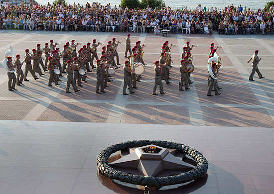 Оркестр Черноморского флота принял участие в фестивале военных оркестров «Sevastopol Military Tattoo»